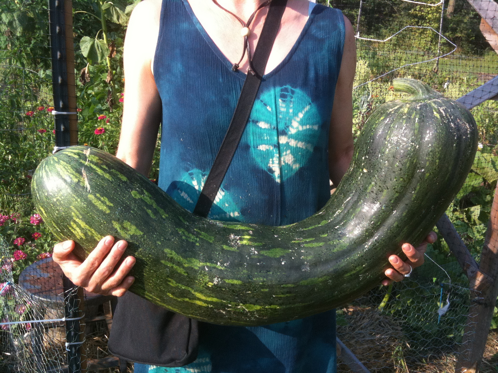 Cucurbita moschata "Long of Naples" Squash.